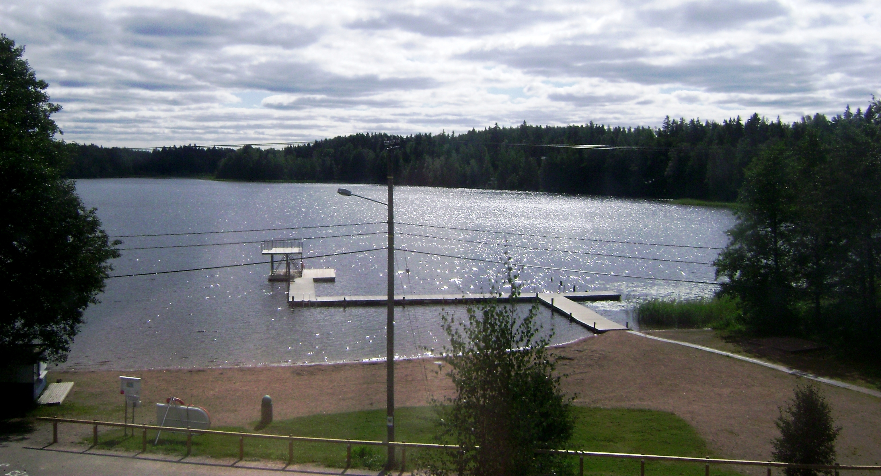 Lake Otalampi in Vihti, Finland.